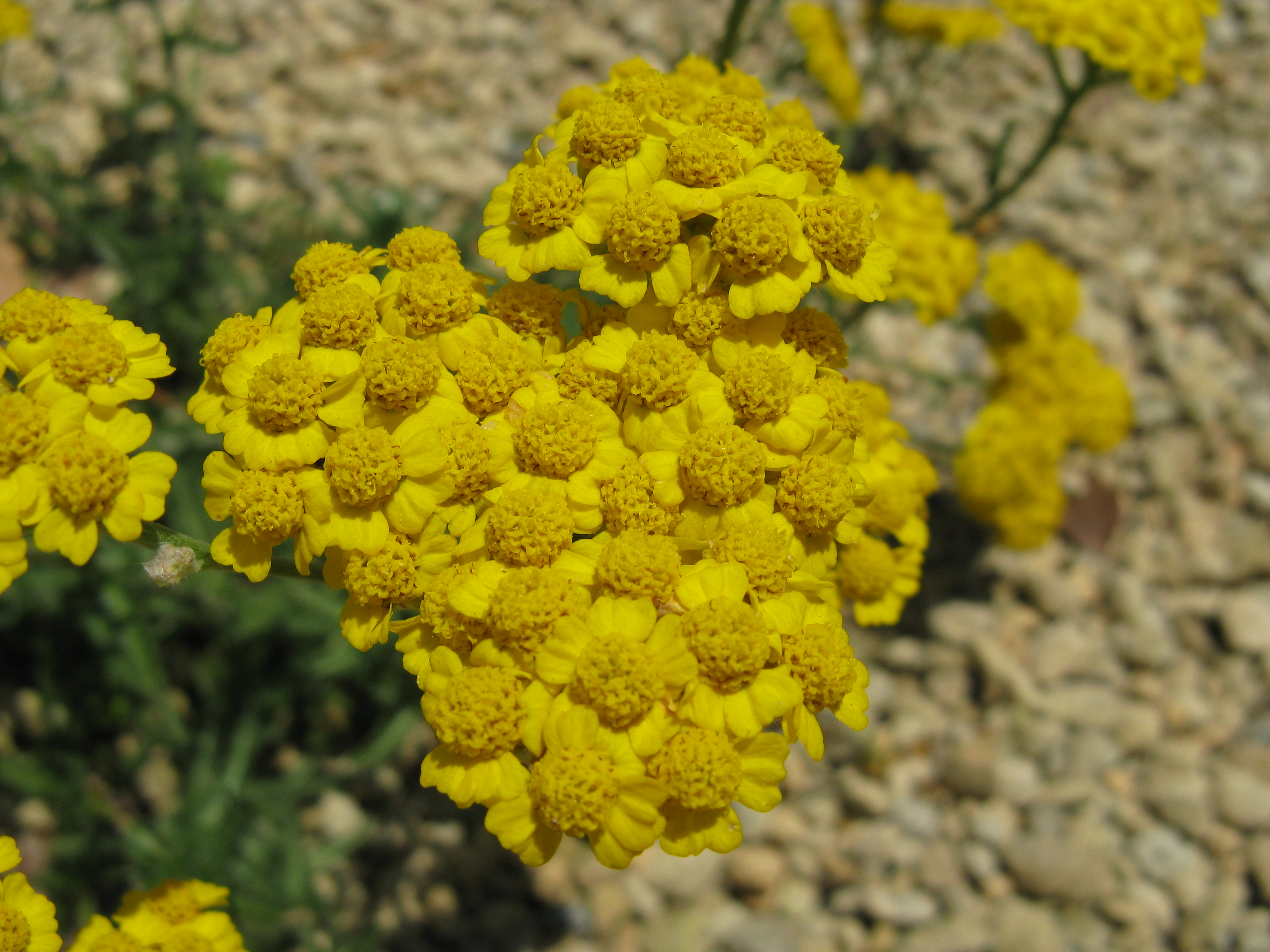 Achillea tomentosa